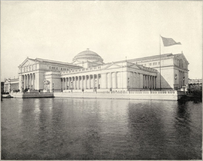 "Palace of Fine Arts." From Columbian Gallery: A Portfolio of Photographs of the World's Fair, The Werner Company. 1893. Digitial Identifier: GN90799d_CG_004w World's Columbian Exposition Collection at The Field Museum